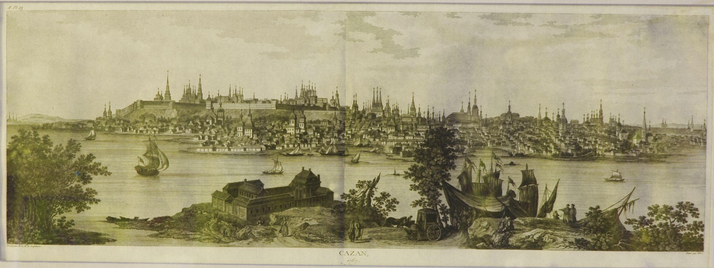 engraving of Kazan in 1767 cnt by de Lespinasse